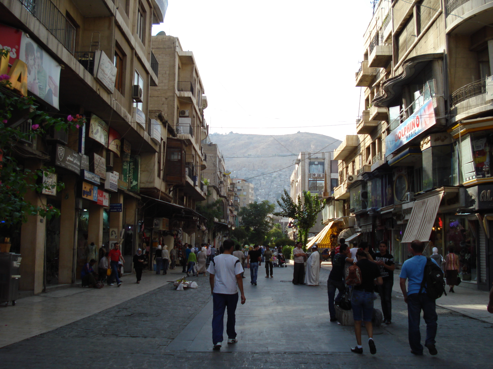 Salhiyyeh souq in Damascus.